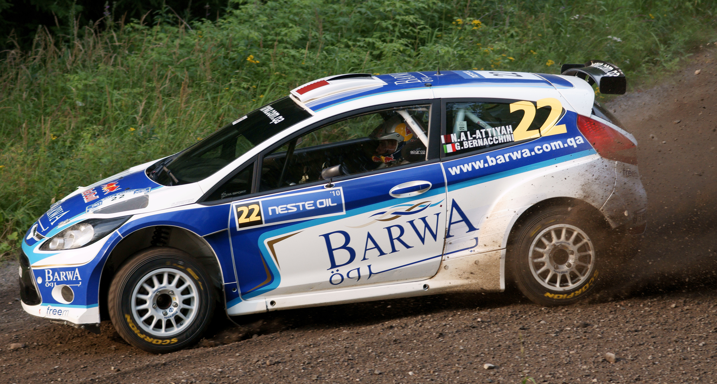 Nasser Al-Attiyah driving at Laajavuori special stage, Rally Finland 2010.